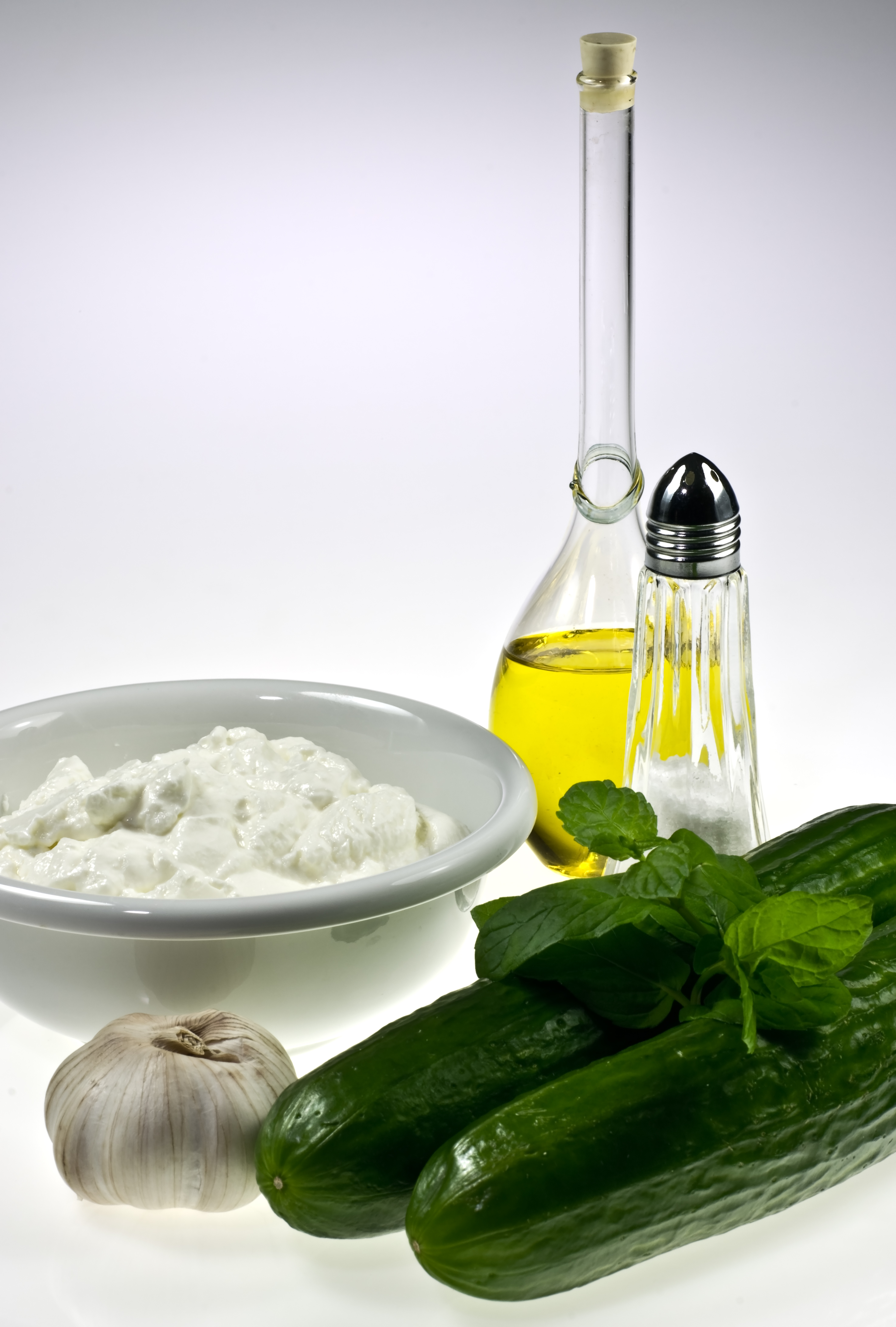 Tzatziki, tzadziki, or tsatsiki - Greek meze or appetizer, also used as a sauce (components)